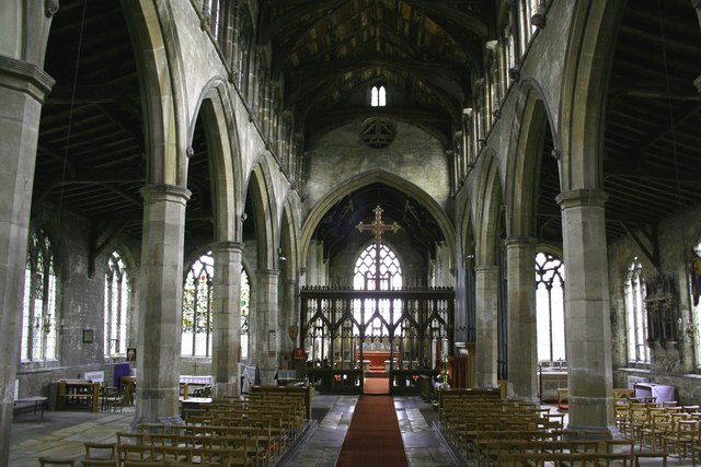 St.Mary Magdalene's nave Looking east in the light and airy nave of St.Mary Magdalene's church